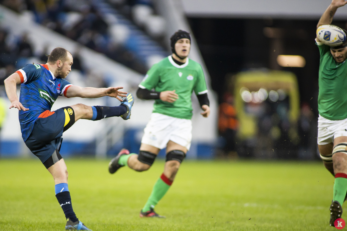 2019-2020 REIC Men XV: Russia vs. Portugal (2020-02-22)